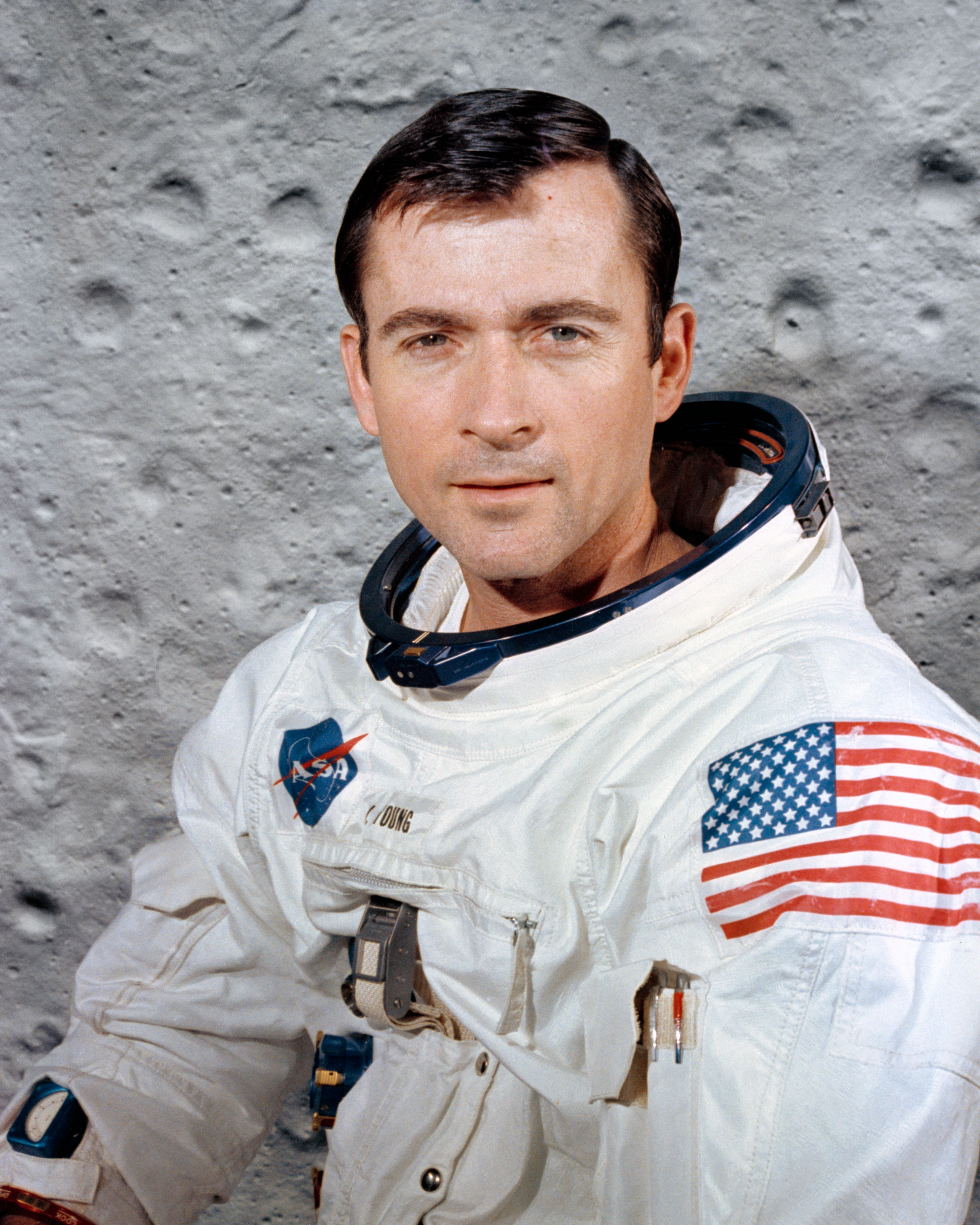 S69-32616 (April 1969) - Astronaut John W. Young, prime crew command module pilot of the Apollo 10 lunar orbit mission.